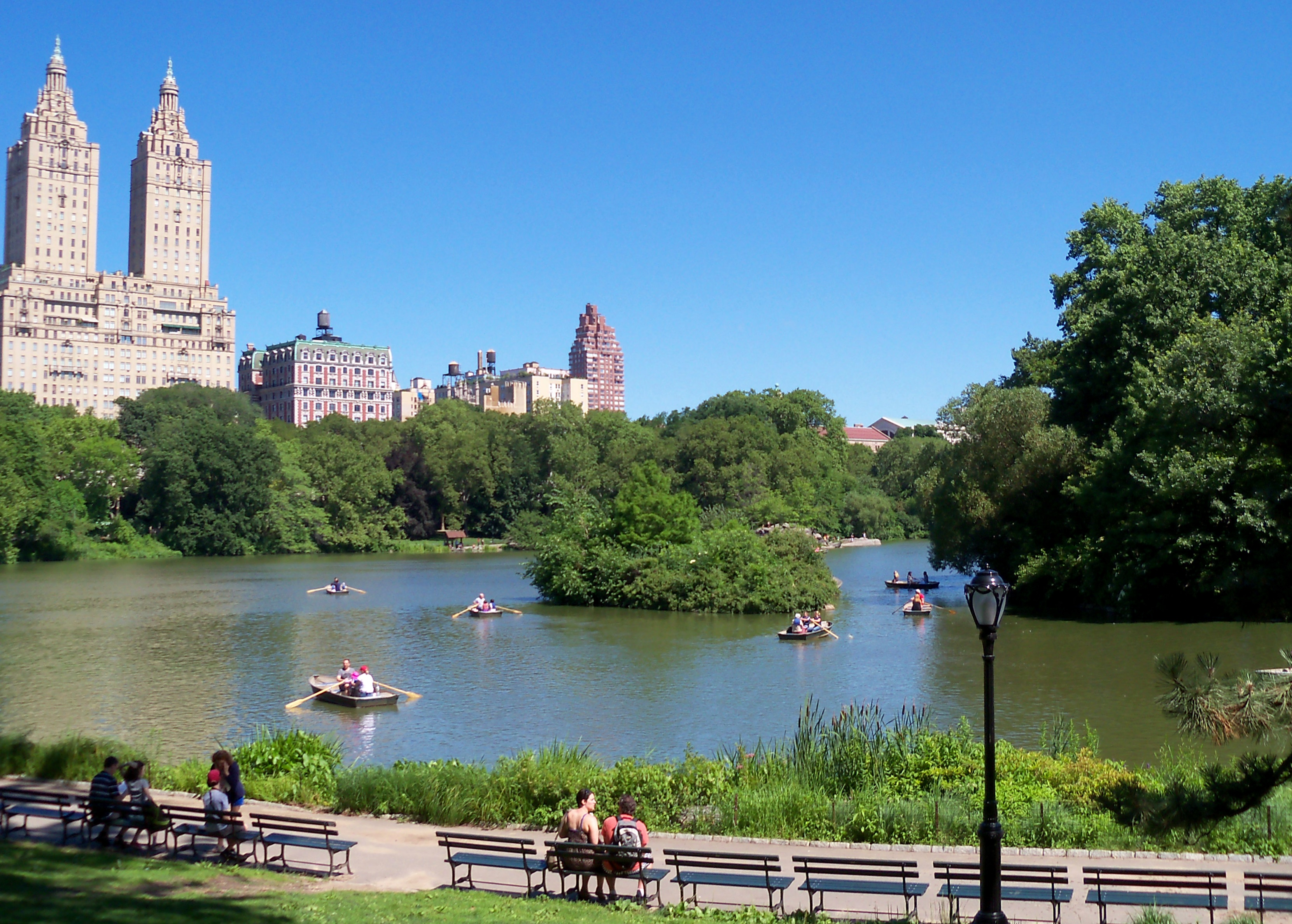 The Lake in Central Park with the San Remo building in the background. New York, New York, USA.